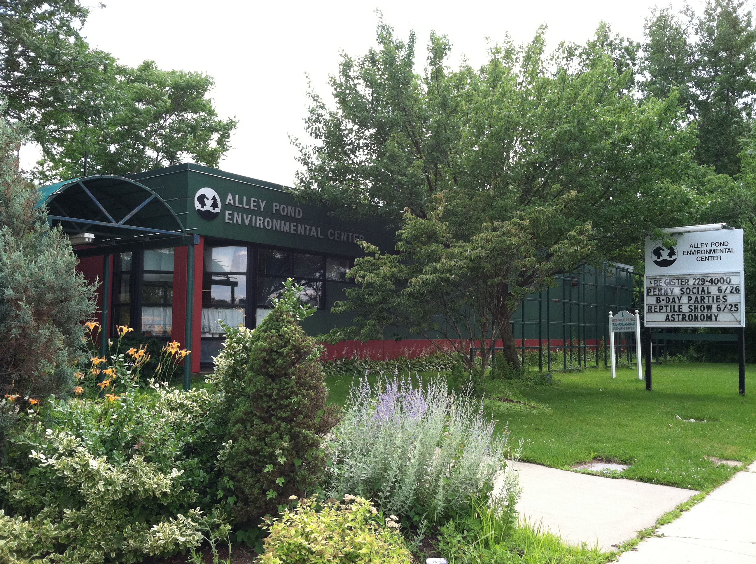 Alley Pond Environmental Center in Alley Pond Park, 228-06 Northern Boulevard, Douglaston, NY